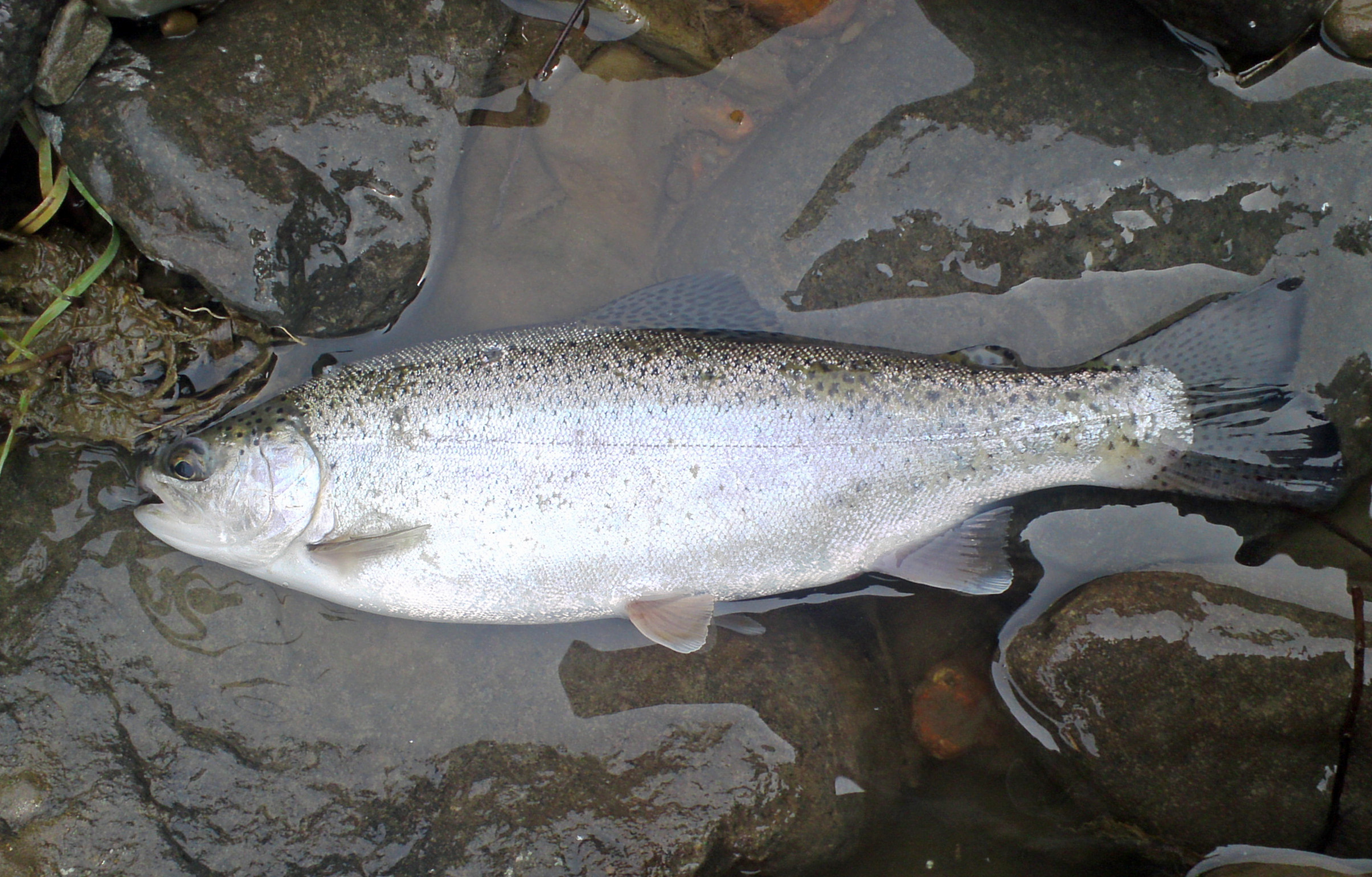 Rainbow Trout